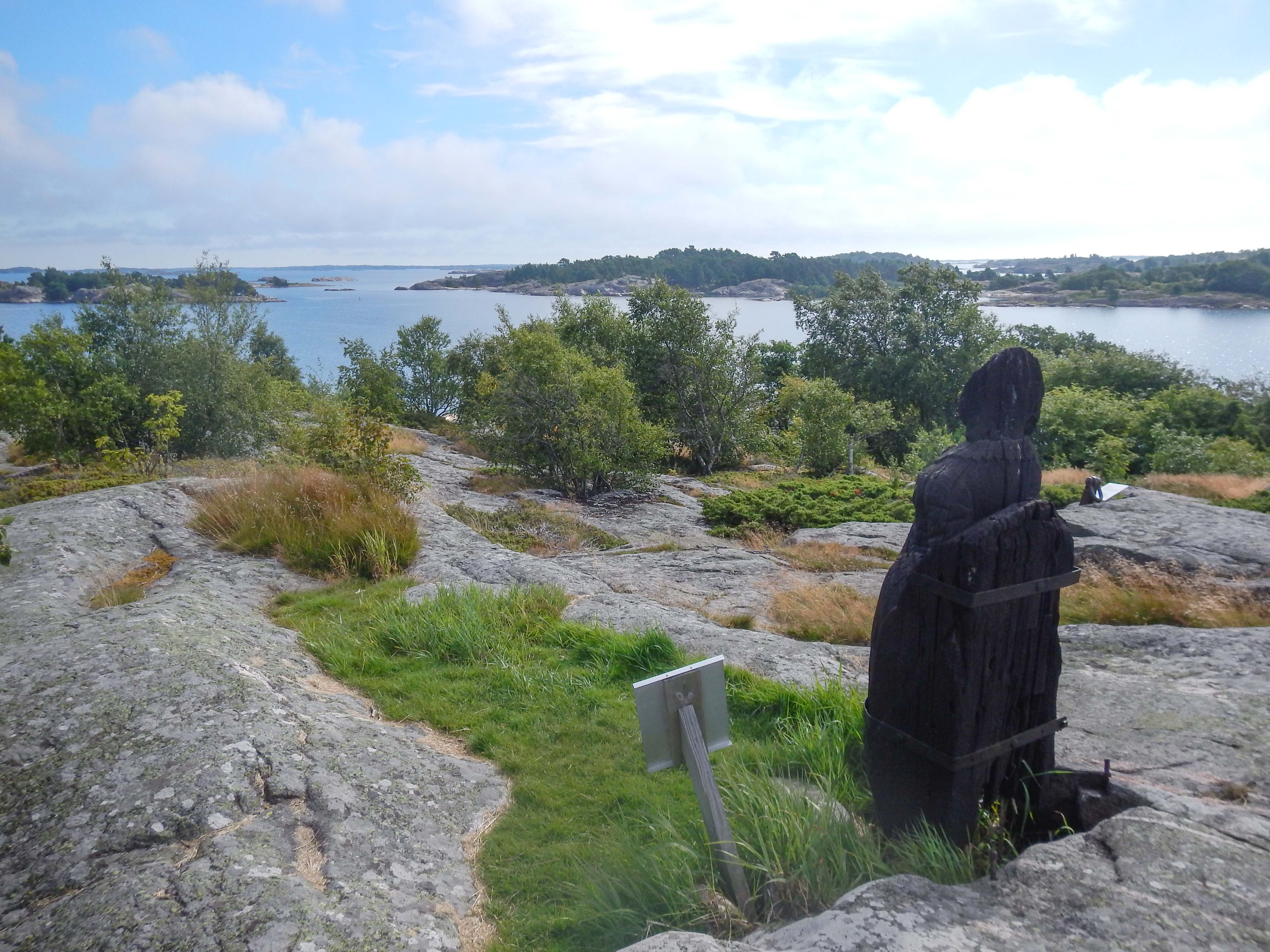 Island of Borstö in southernmost Nagu